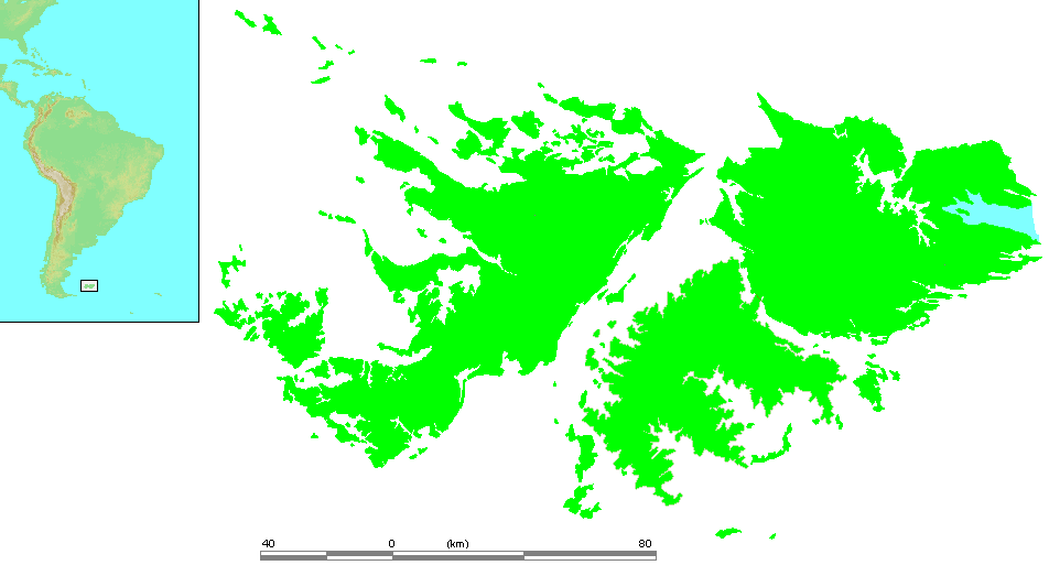 Berkeley Sound (tinted) in the Falklands.